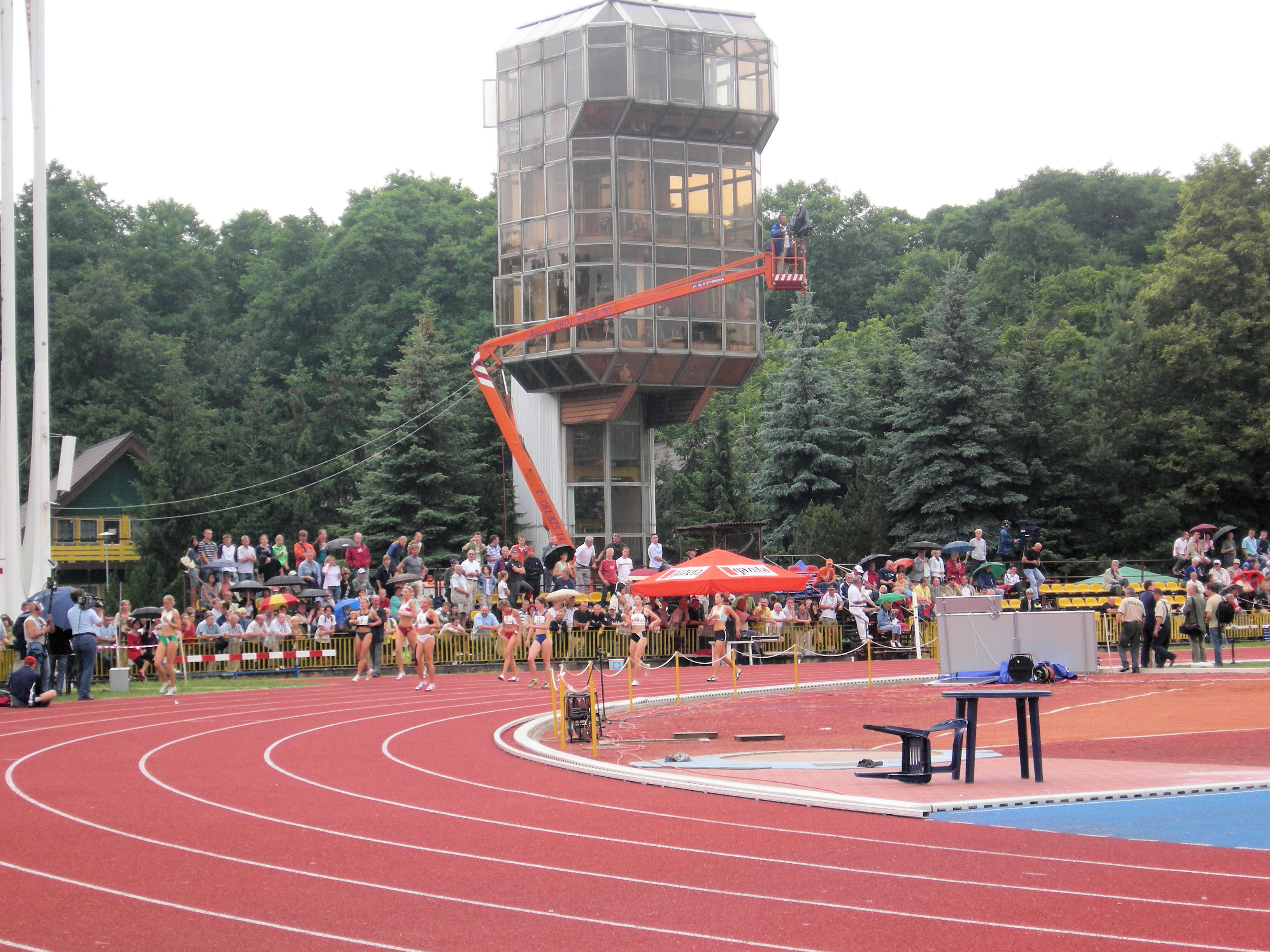 stadium during Polish Championship in athletics 2007 - Poznań